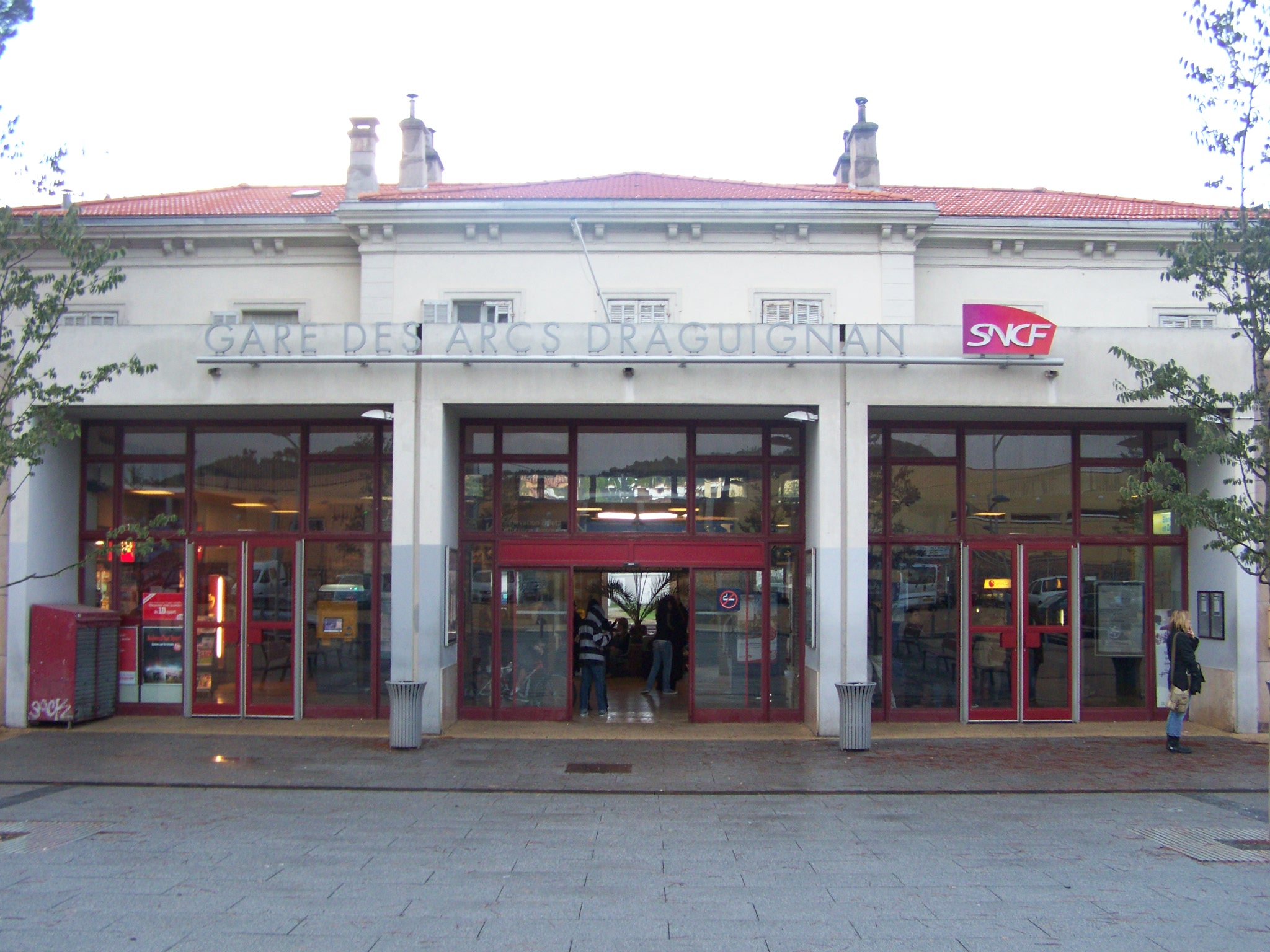 Sight on Les Arcs-Draguignan railway station, in Var, France. The station is situated on the commune of Les Arcs and the commune of Draguignan isn't far.